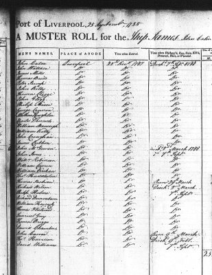 the list of persons working on the ship James